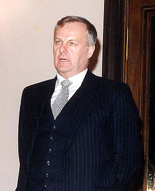 A first major of Saint-Petersberg Anatoly Sobchak